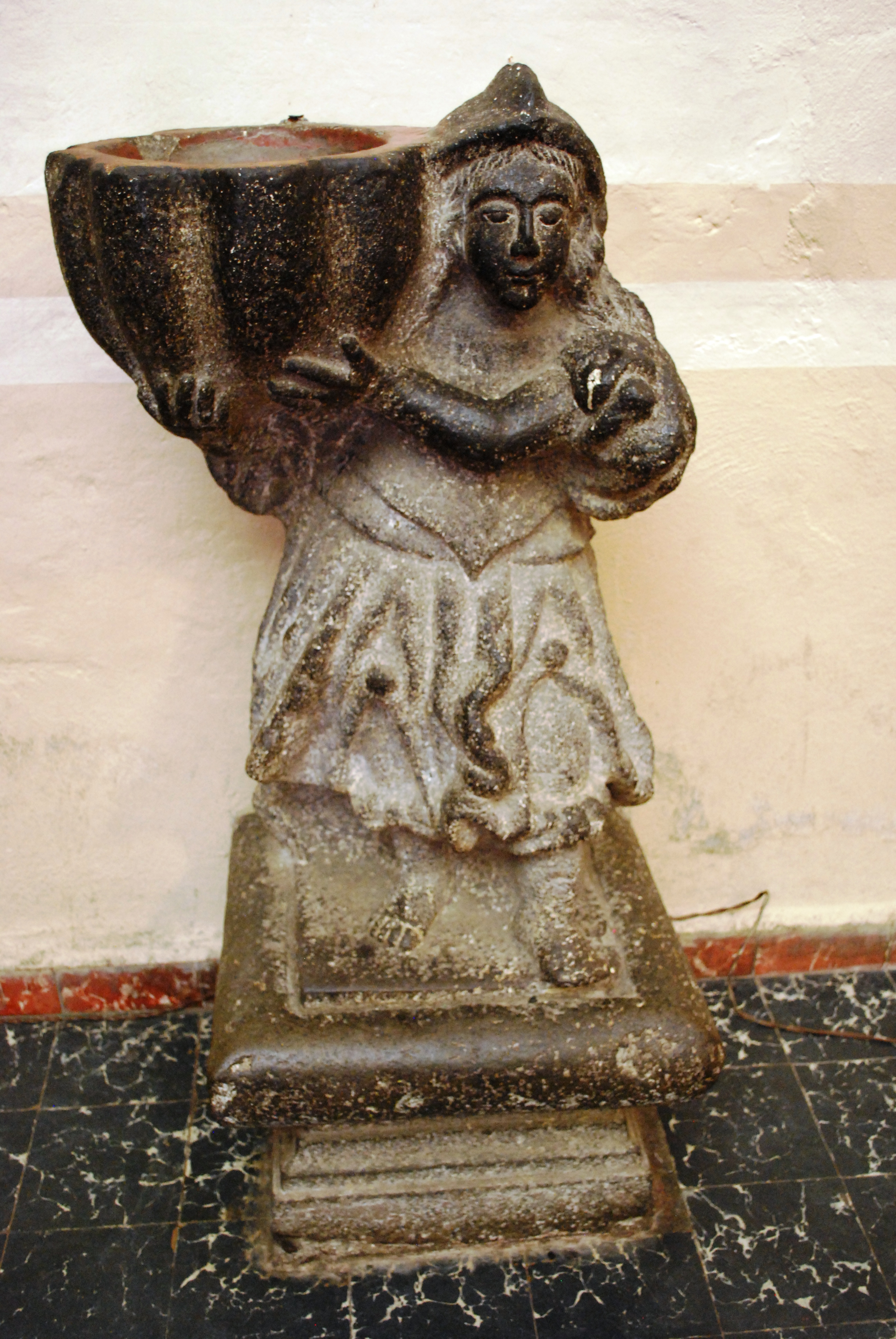 Holy water font at the entrance of the Immaculate Conception Church in Ozumba, Mexico State